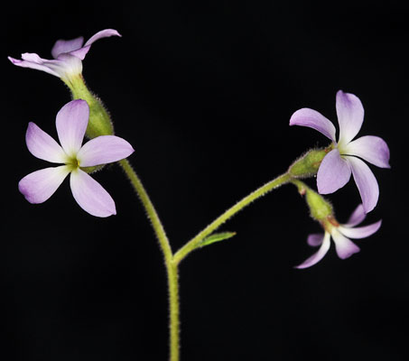 Suksdorfia violacea flowers.